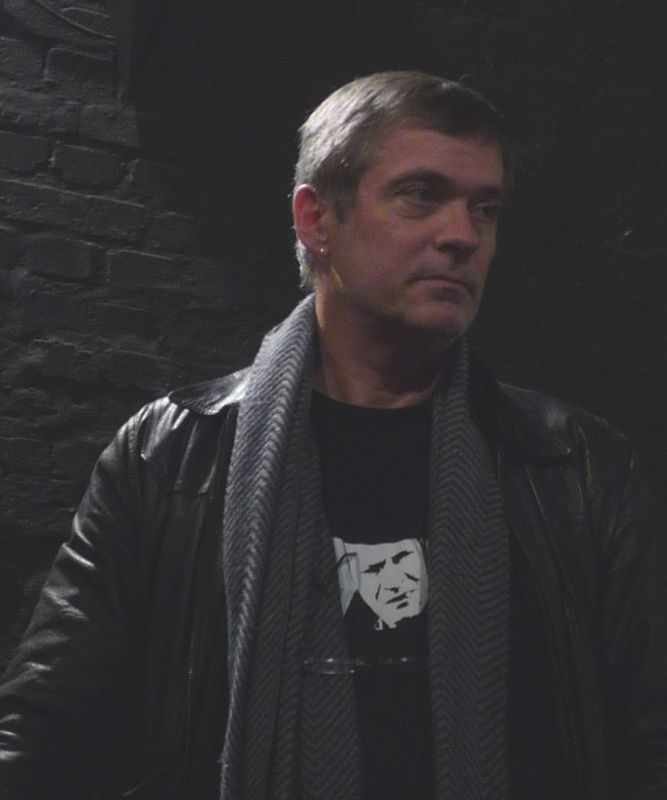 Luxembourgian film producer Paul Thiltges at Saarbruecken/Germany after a screening in Kino achteinhalb on 2010-11-15